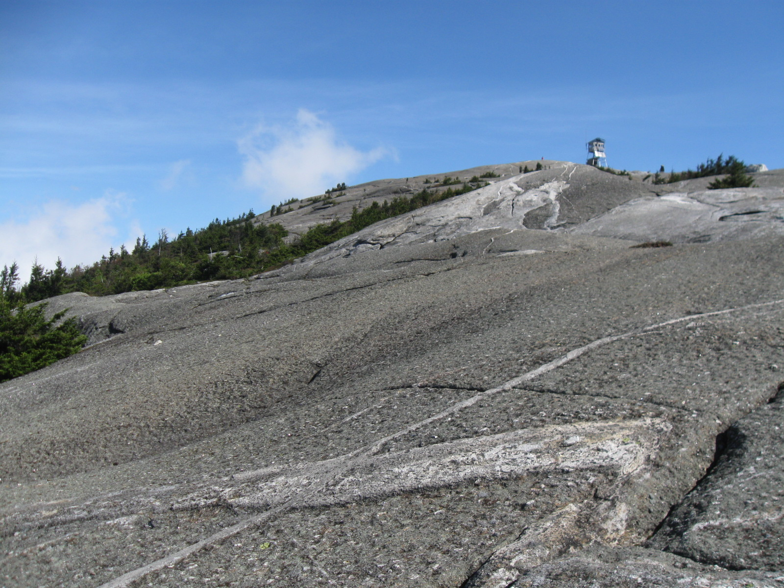 Bedrock of the Cardigan Pluton as exposed near the summit of Mount Cardigan, in New Hampshire